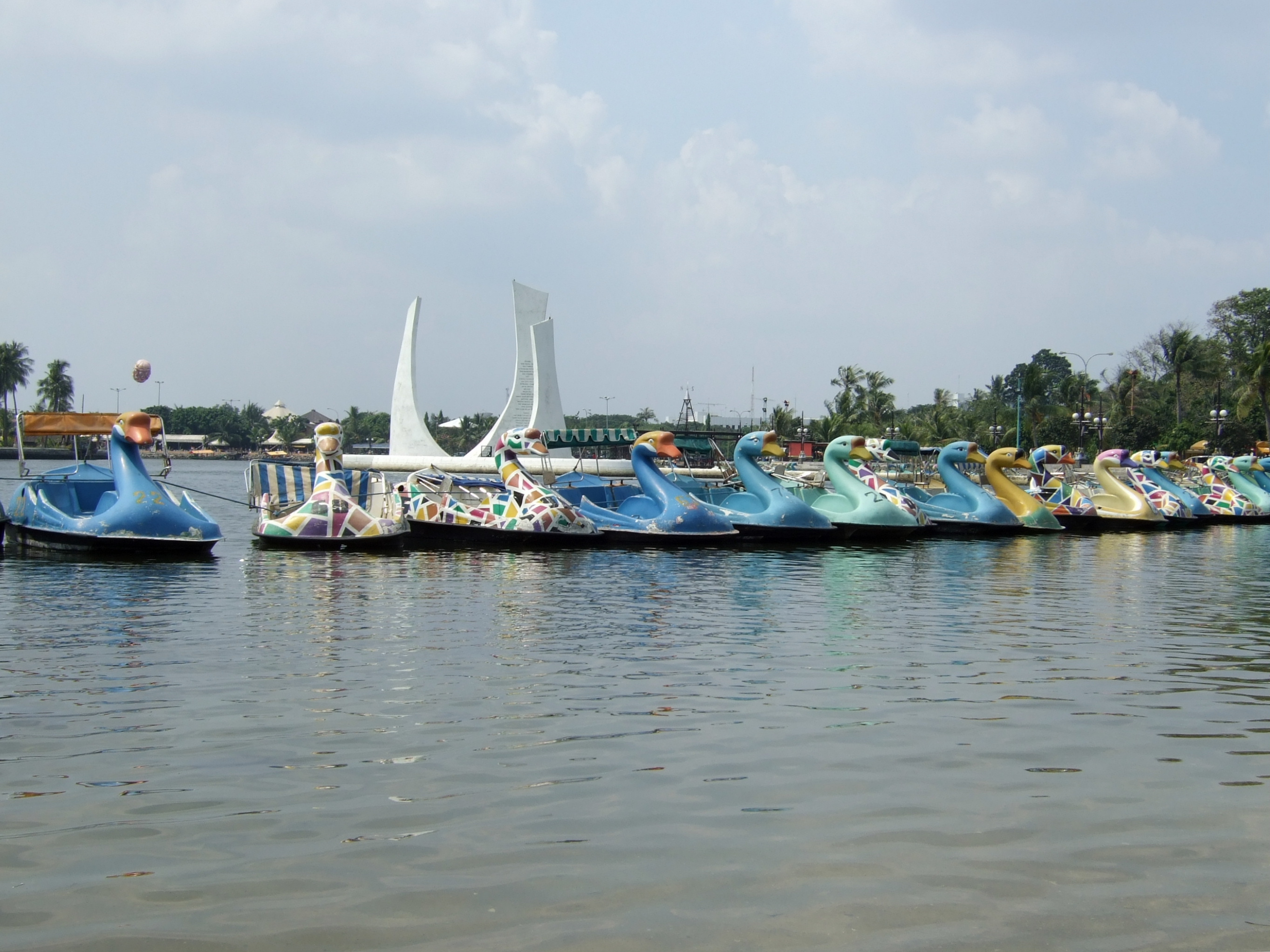 Swan pedal boats (Danau Monument in the background), Ancol Jakarta Bay City, Indonesia